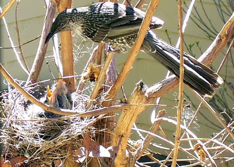 Little Wattlebird (Anthochaera chrysoptera) feeding nestlings in Crepe Myrtle shrub (Lagerstroemia) in garden, New South Wales, Australia